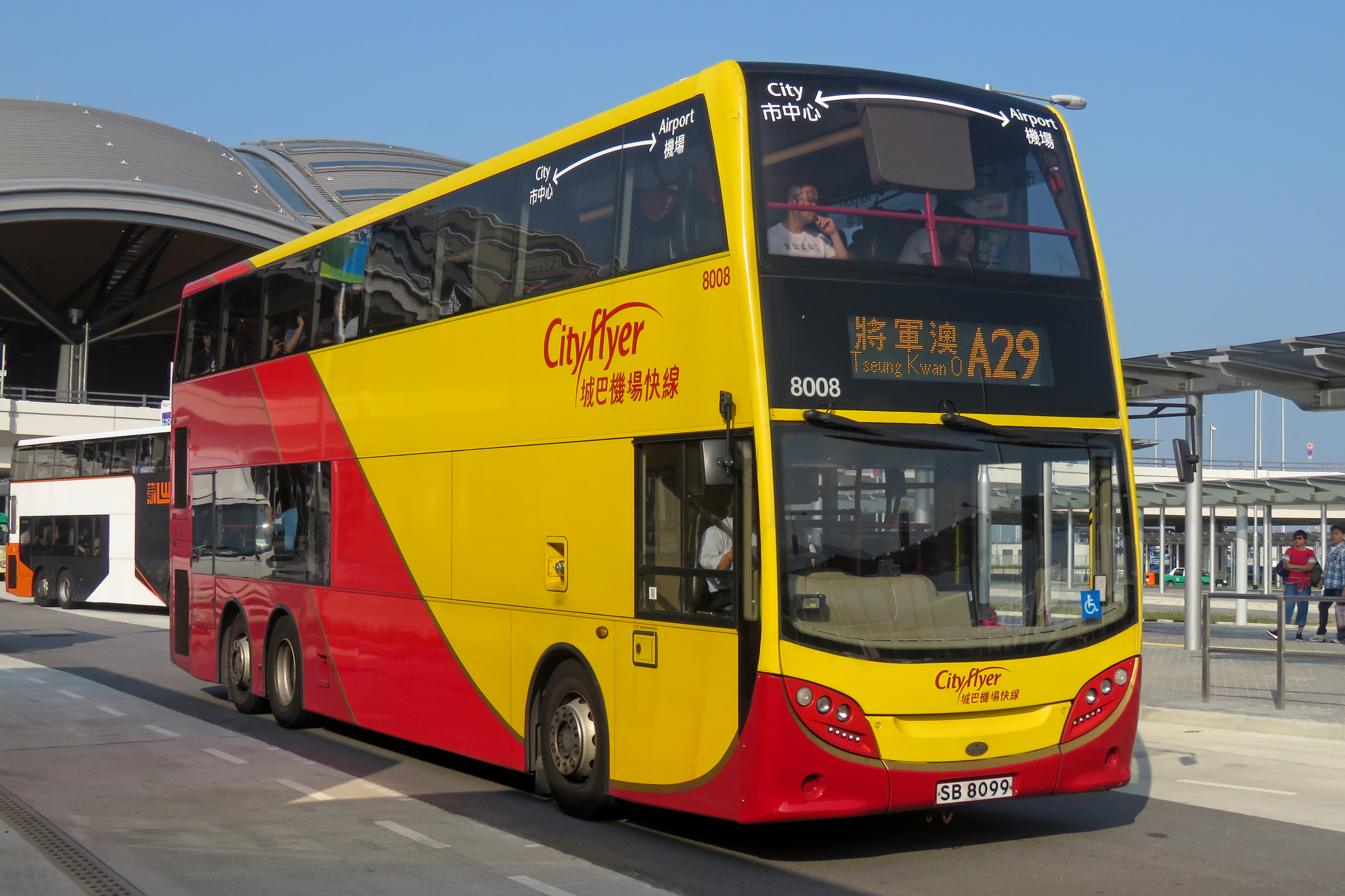 The current Cityflyers are still not enough?